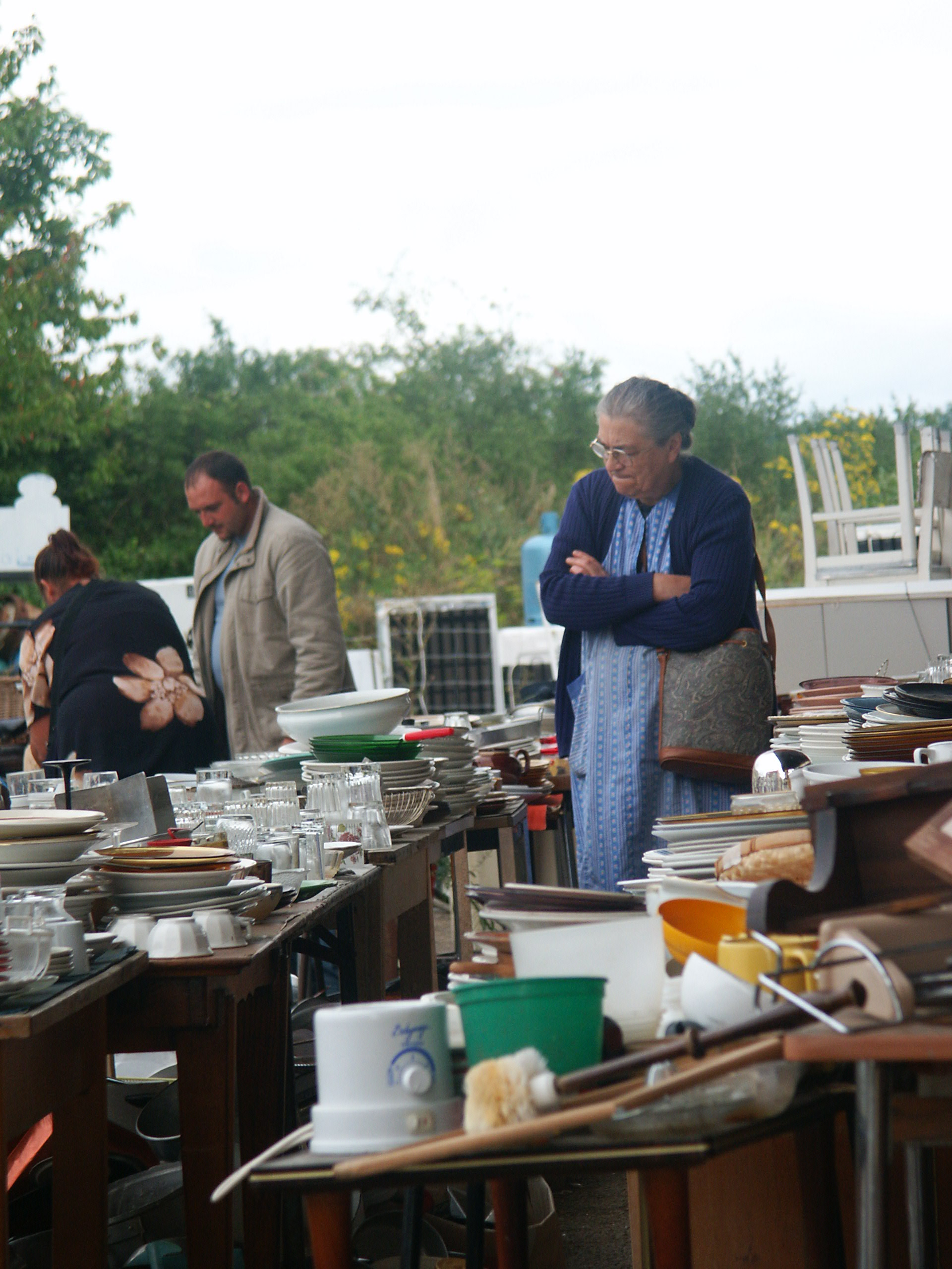 Emmaus Community in Pontigny, France